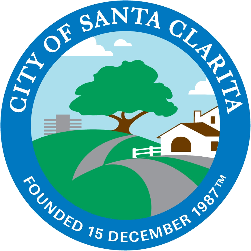 The official city seal of the City of Santa Clarita — in Los Angeles County, California. This is one of two known variants, the older second variant uses a different serif font for the "CITY OF SANTA CLARITA" that runs along the top of the seal.